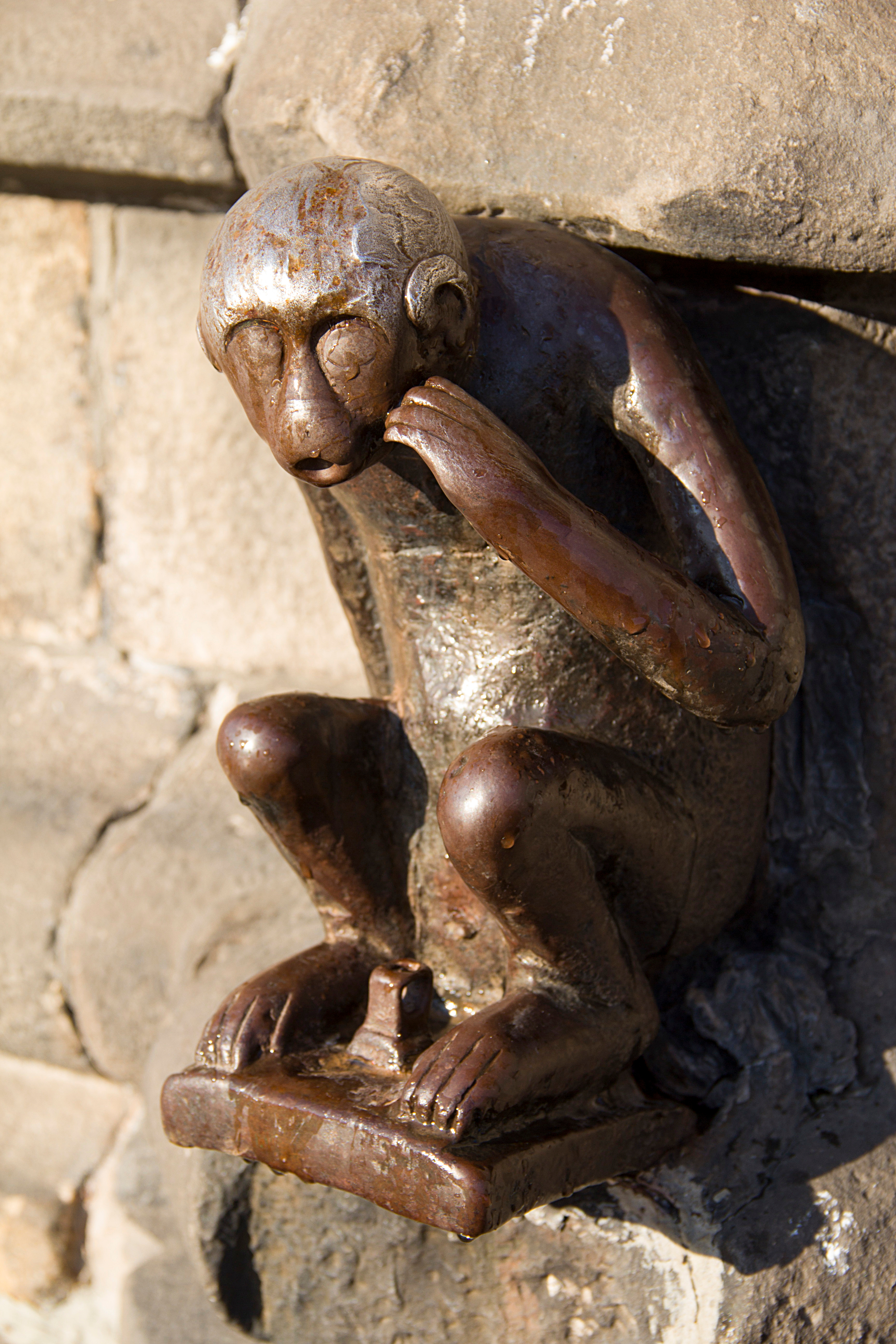 Mons (Belgium), little monkey of the city hall statue, preferably named «Singe du Grand'Garde» (Monkey of the Big Guard).